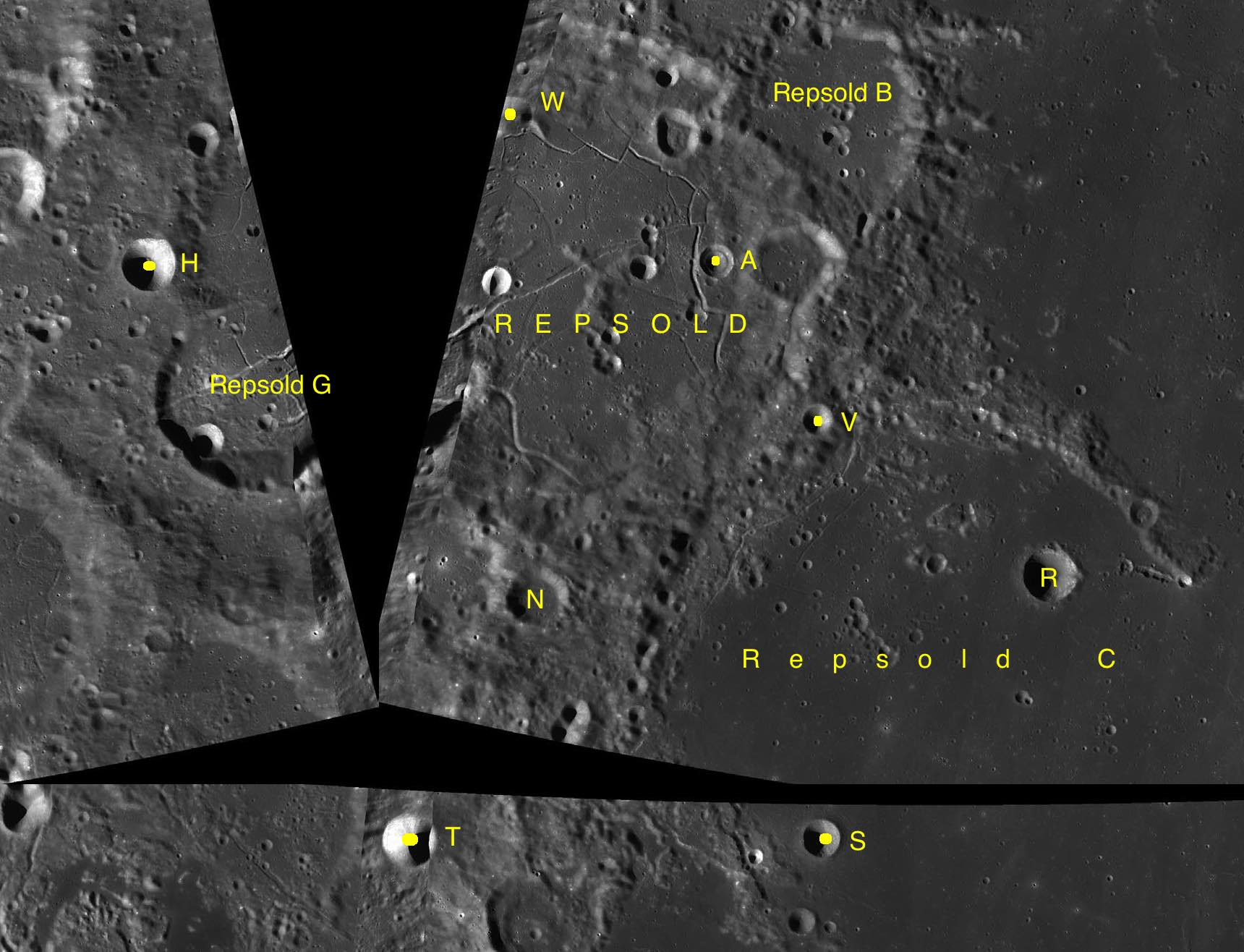 Parts of the charts LAC-10, LAC-21, LAC-22 used for the presentation